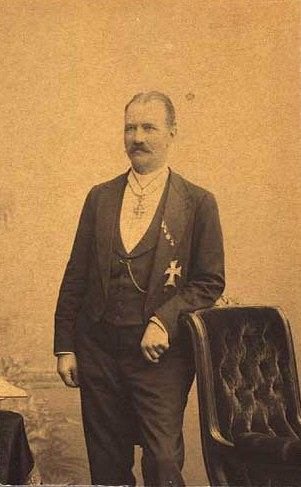 Frederik Ferdinand Jacobi (1830-1900), Danish colonel